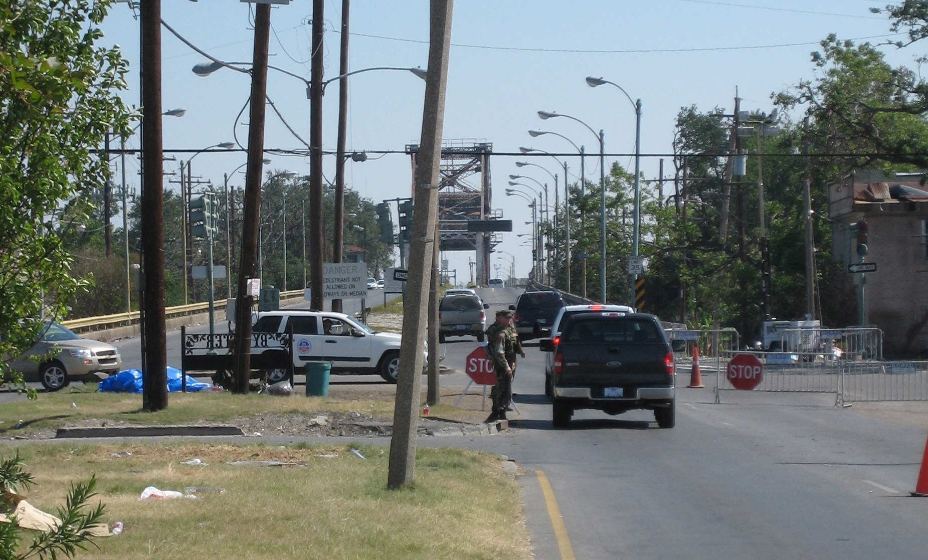 New Orleans after Hurricane Katrina: St. Claude Avenue, Bywater neighborhood. Checkpoint into severely damaged Lower 9th Ward neighborhood Saint Claude Bridge over the Industrial Canal